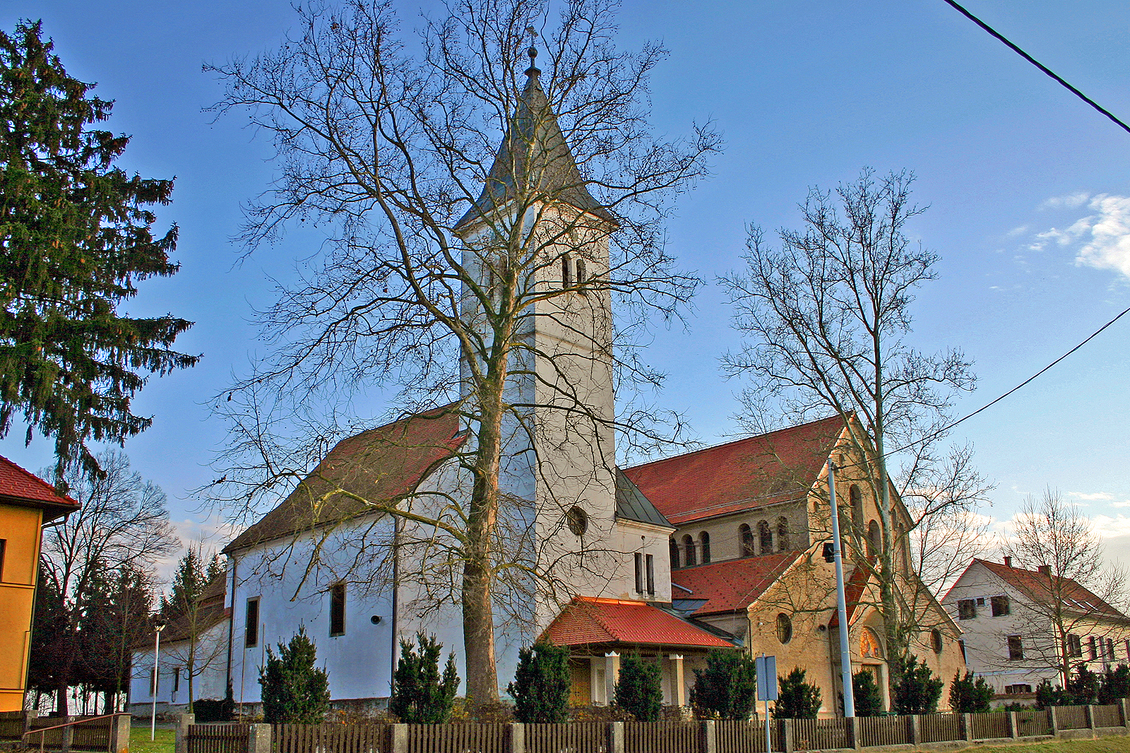 Assumption of Mary church, Turnišče.